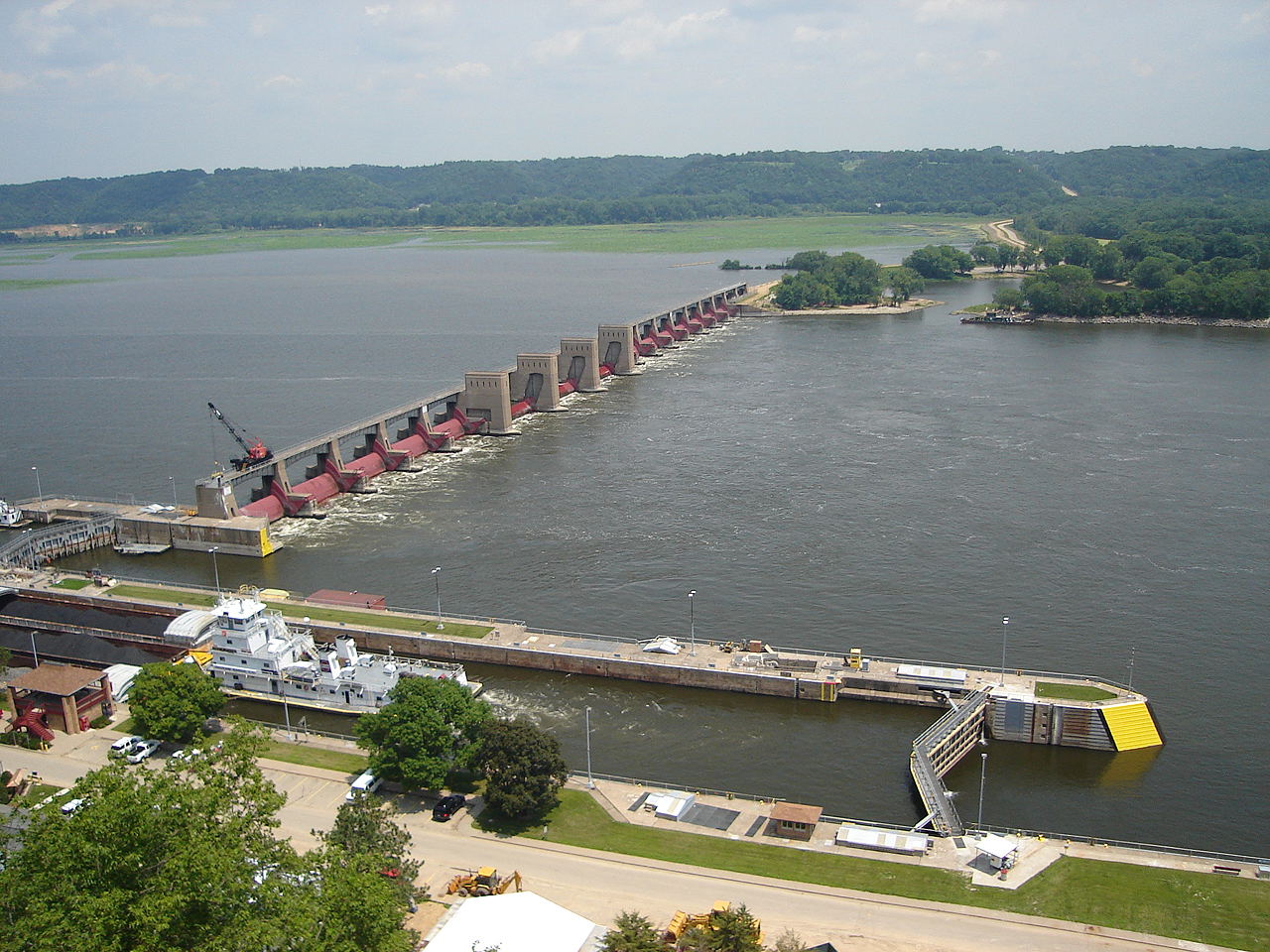 Description: This is Lock and Dam 11 as seen from Eagle Point Park in Dubuque Iowa - Source: I took this photo - Date: Jun 28, 2006 - Author: Daniel Callahan